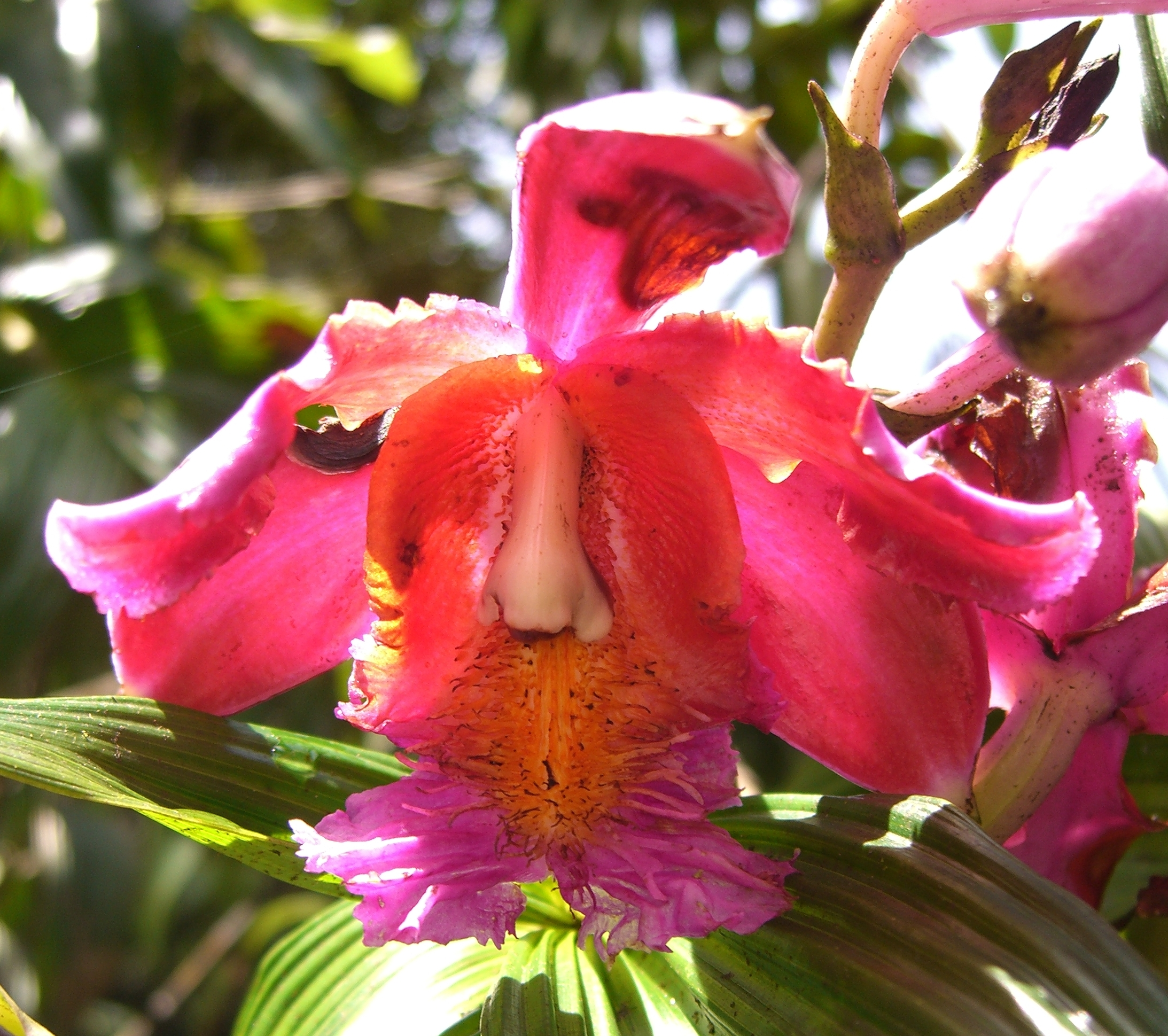 Please report references to .